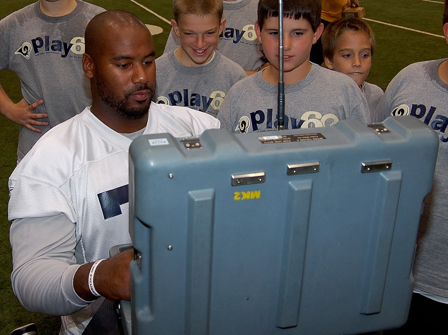 ST. LOUIS (Sept. 7, 2010) -- St. Louis Rams Football Player Jason Smith (no. 77), operates TALON, a robot used by the Navy's explosive ordnance disposal units, while St. Louis area children watch. The Navy and St. Louis Rams come together to work out with area children to promote a culture of fitness. This event was part of Navy Week 2010. St. Louis Navy Week, Sept. 2-12, one of 19 Navy Weeks planned across America for 2010. Navy Weeks show Americans the investment they have made in their Navy and increase awareness in cities that do not have a significant Navy presence. (U.S. Navy photo by Mass Communication Specialist 1st Class Ruben Perez/Released)